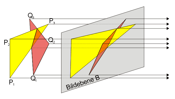 Principle of parallel projection / drawing /